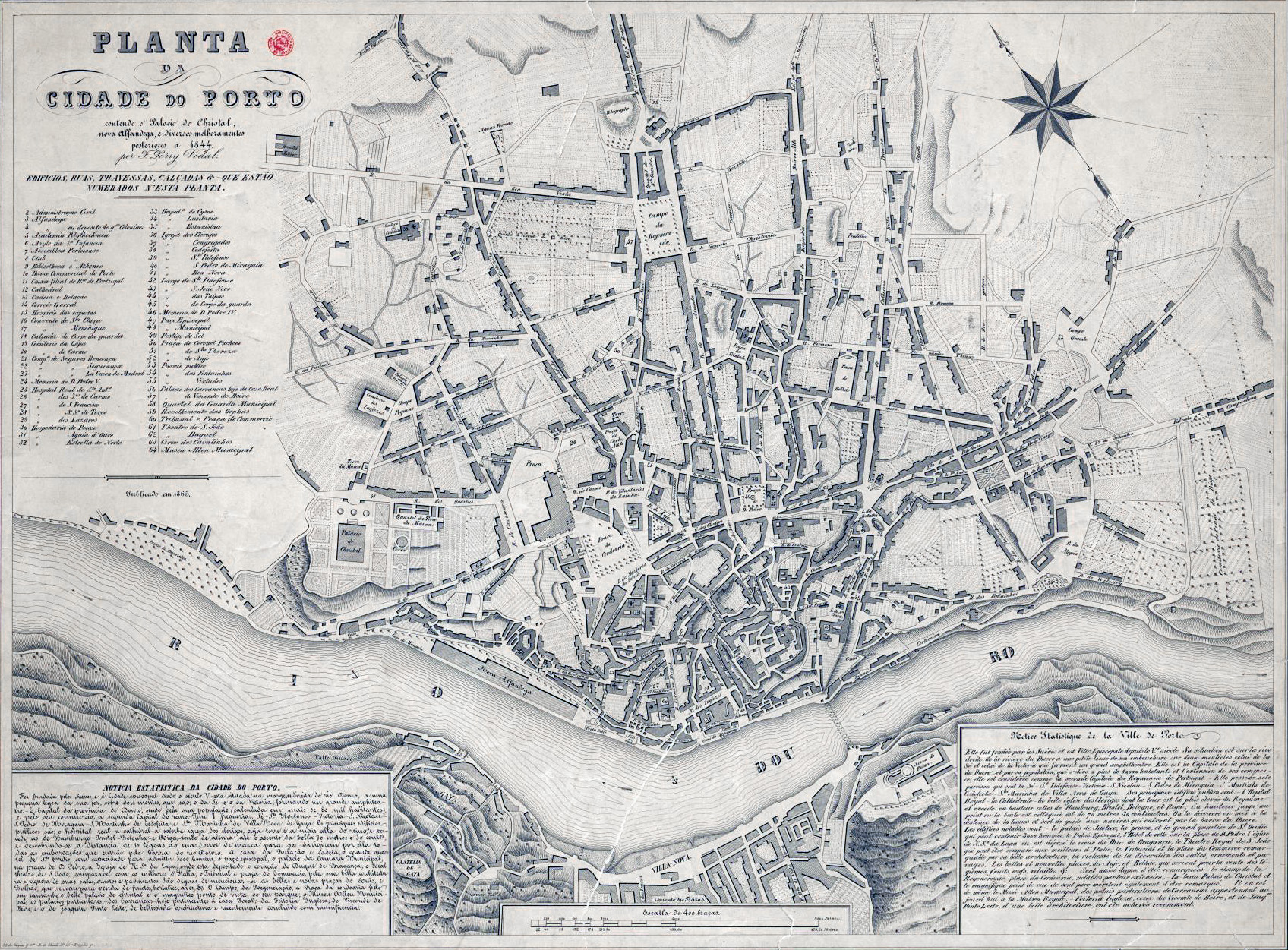 Porto city plan. Author: Vidal, F. Perry. Printed in 1865 at Off. de Vasques & Cª, Lisboa.